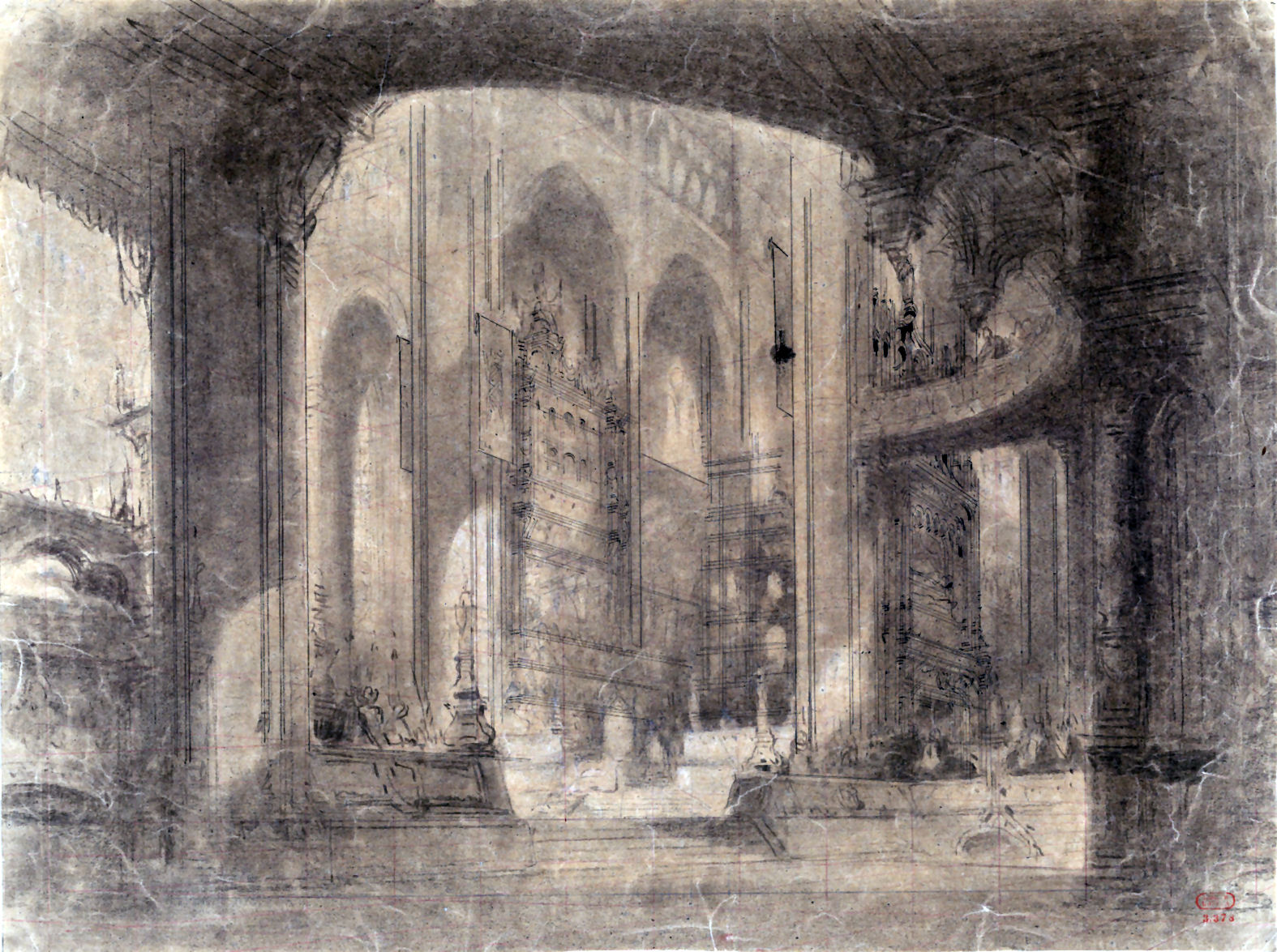 Le Prophète : sketch of the opera set for the second scene of the fourth act (1849) by Charles Cambon (1802-1875)